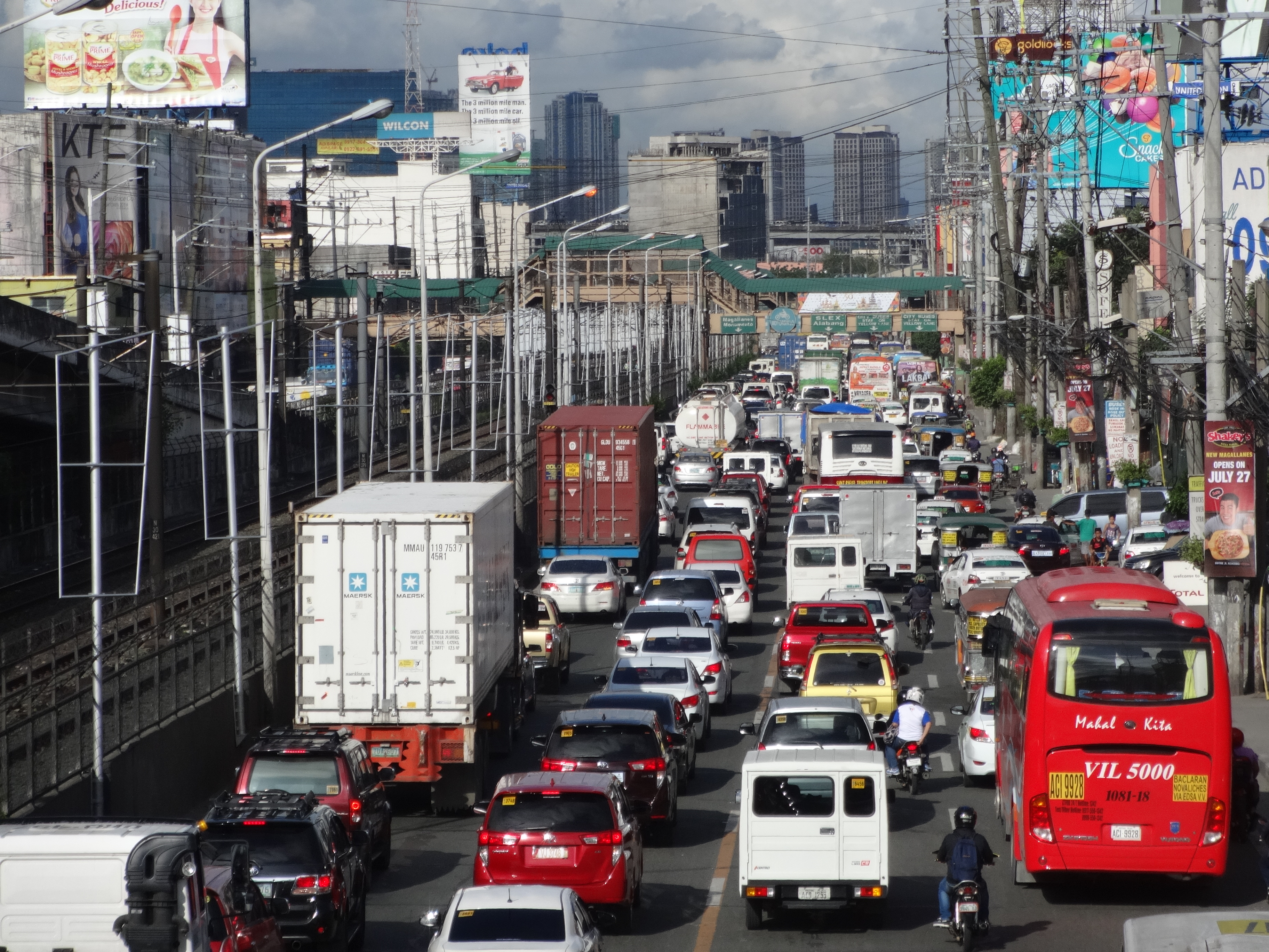 Heavy traffic along EDSA in Pasay City